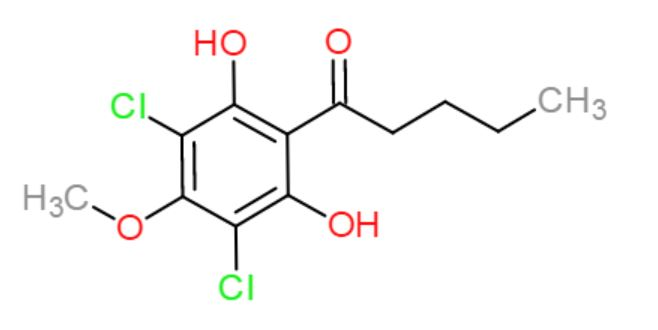 Differentiation Inducing Factor 2.